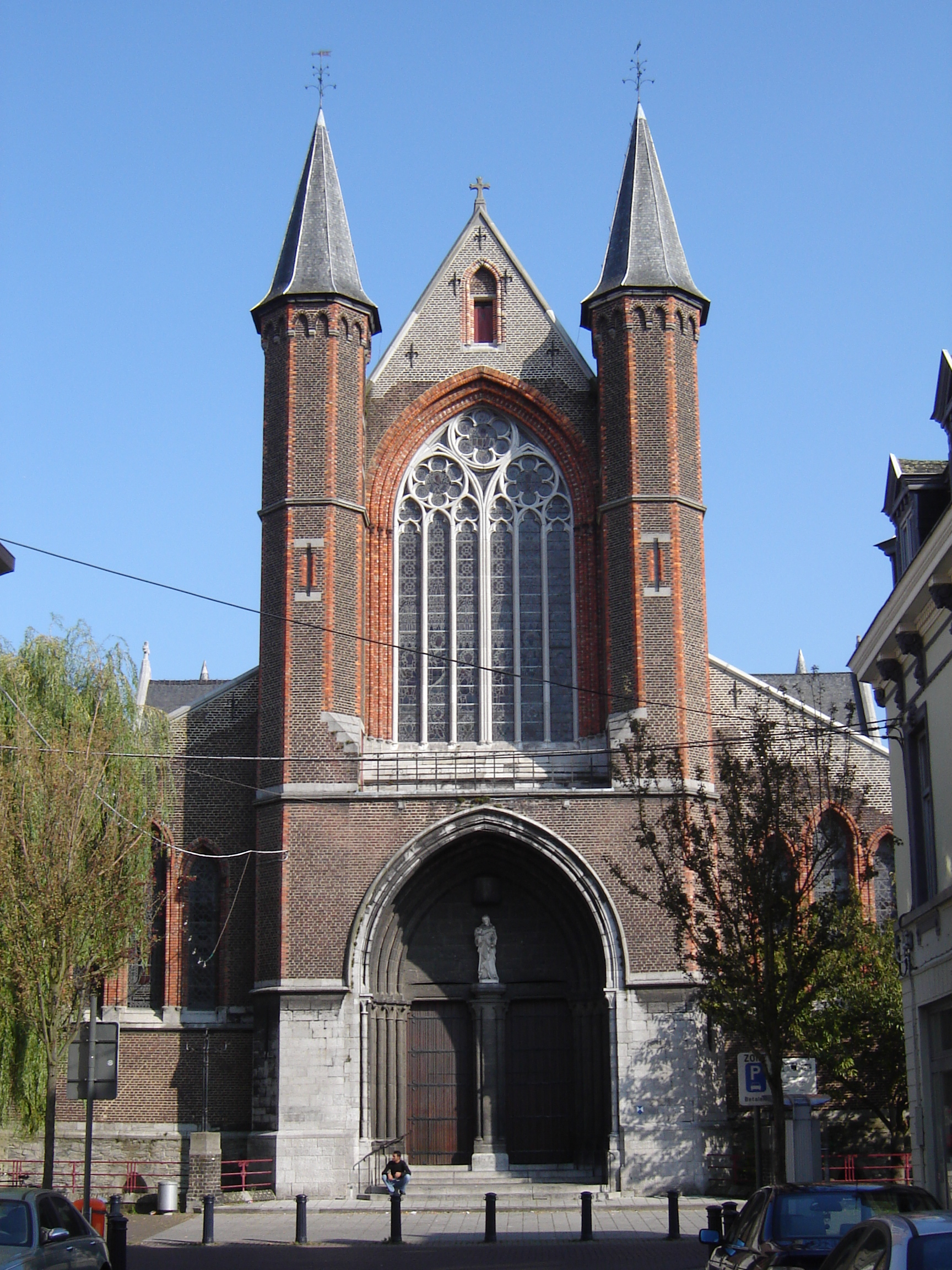 Church of Saint Joseph in Gent. Gent, East Flanders, Belgium.